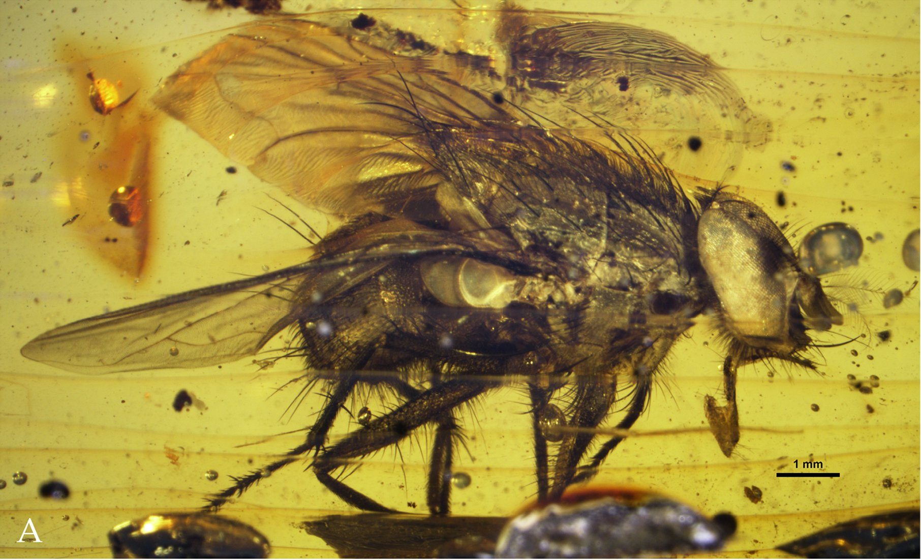 Holotype of Mesembrinella caenozoica (A) habitus in right dorsolateral view.